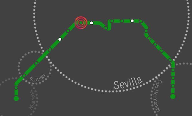 Location